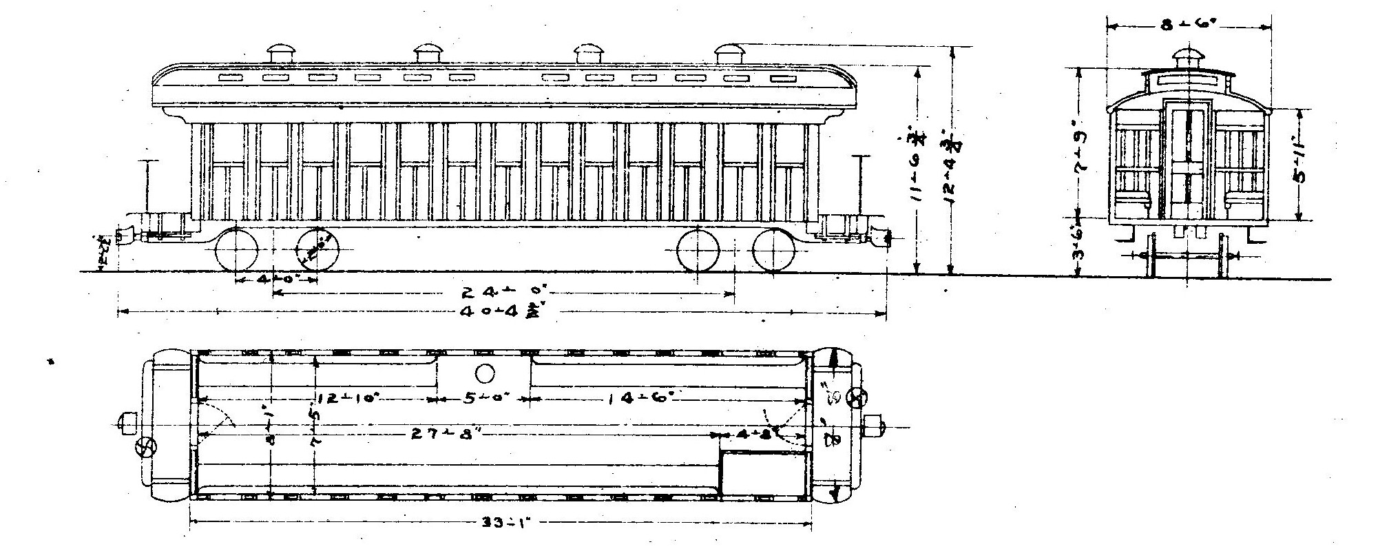 Type drawing of JGR's passenger car Fukoro5672 / Fukoiro5140 (ex. Hokkaido Tanko Railway Ini-3)